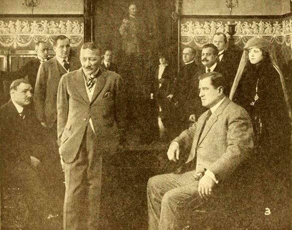 Still from the American film The Prussian Cur (1918) with Miriam Cooper, on page 478 of the January 25, 1919 Moving Picture World.